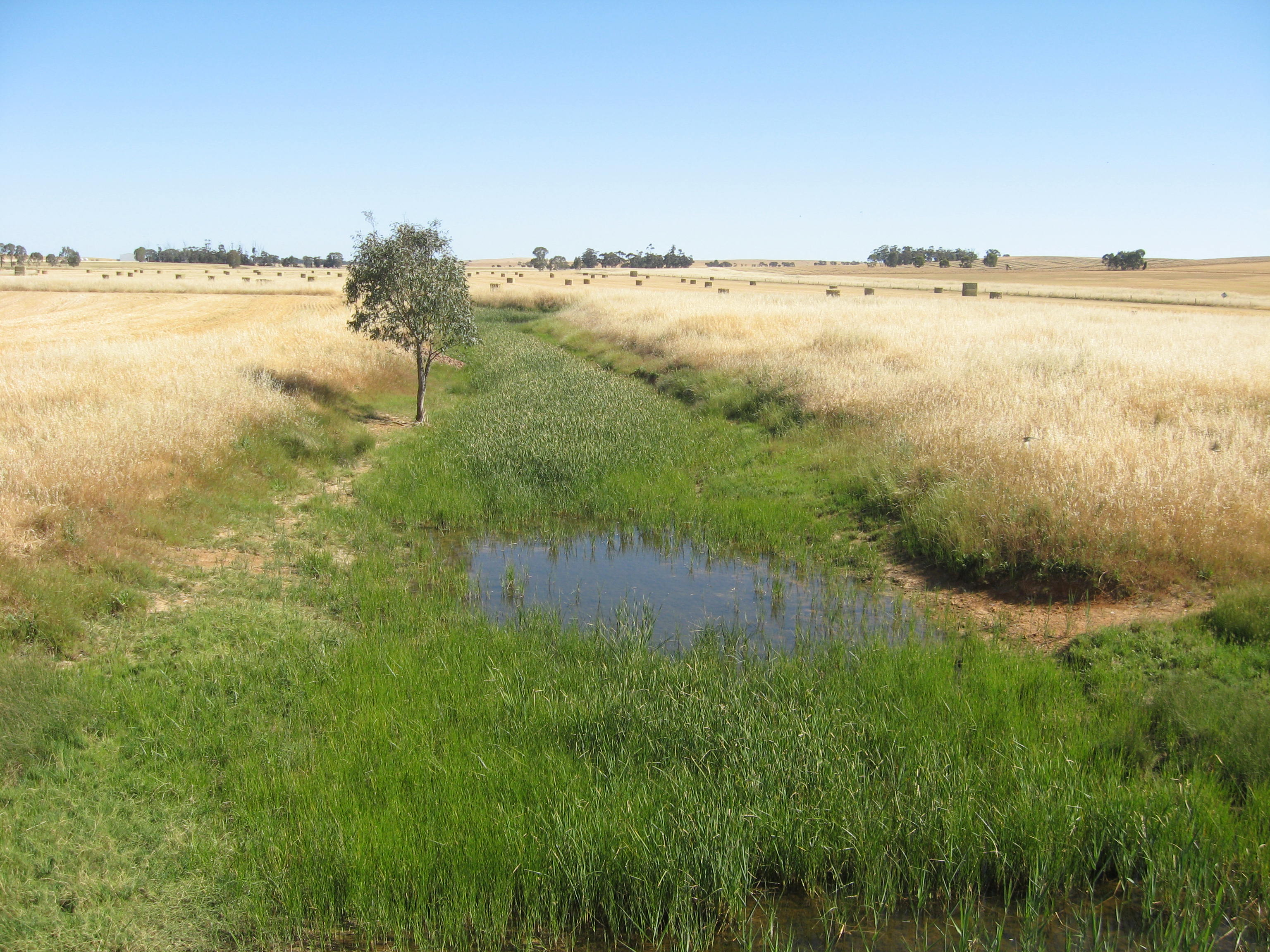 Portion of the Hill River, near Andrews, South Australia